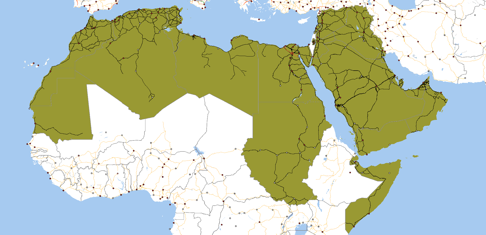 Highways and Roads in the States of the Arab League